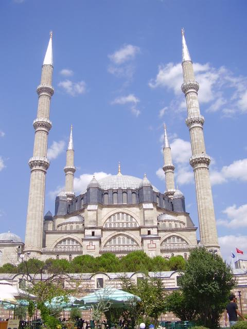 Salimiye Masjid, Edirne, Turkey.